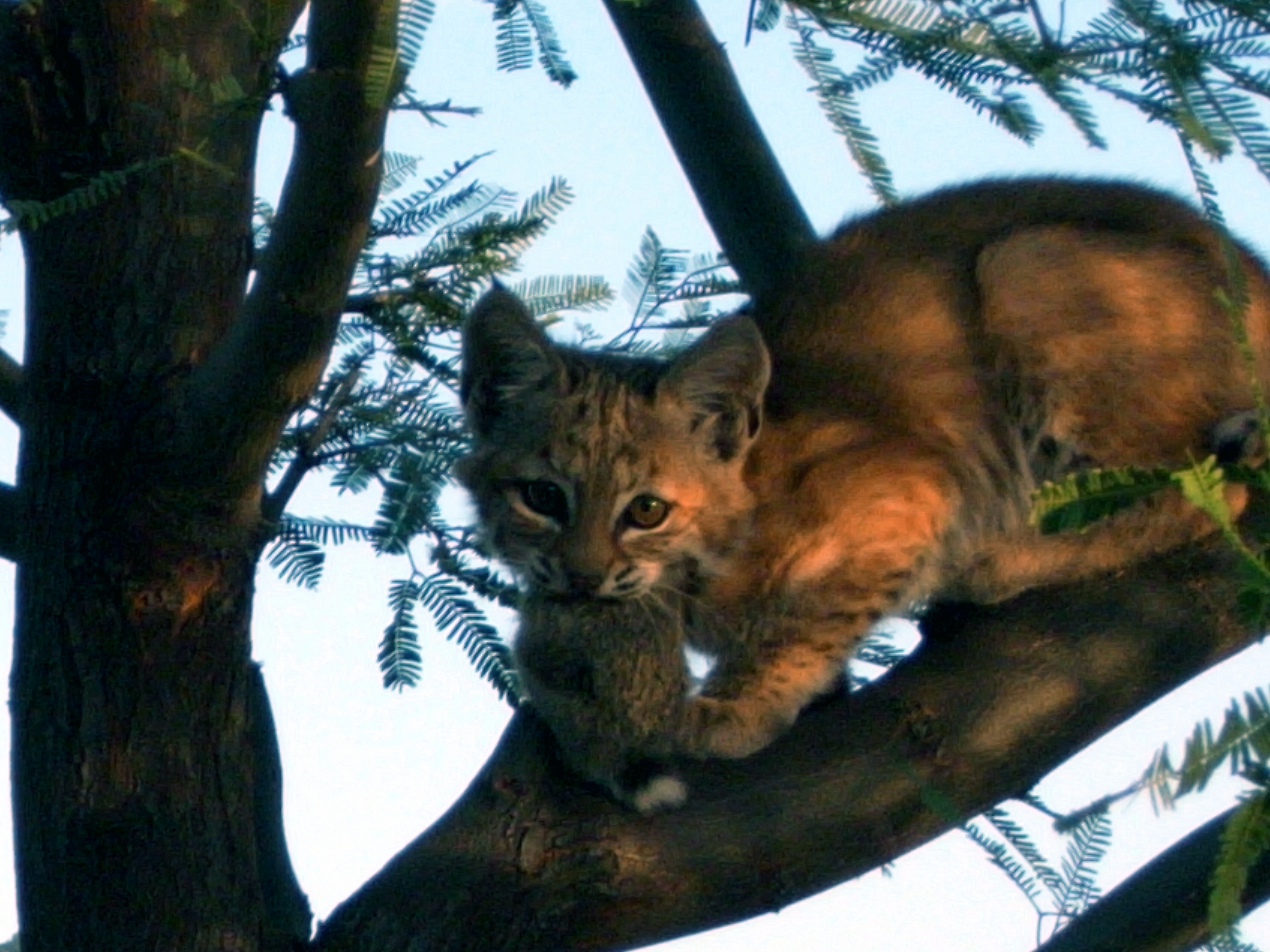 A bobcat (kitten) in a mesquite tree with a rabbit in its mouth.